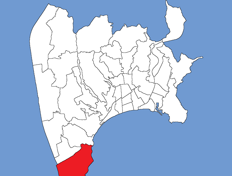 Location of the neighbourhood Arénas in Nice